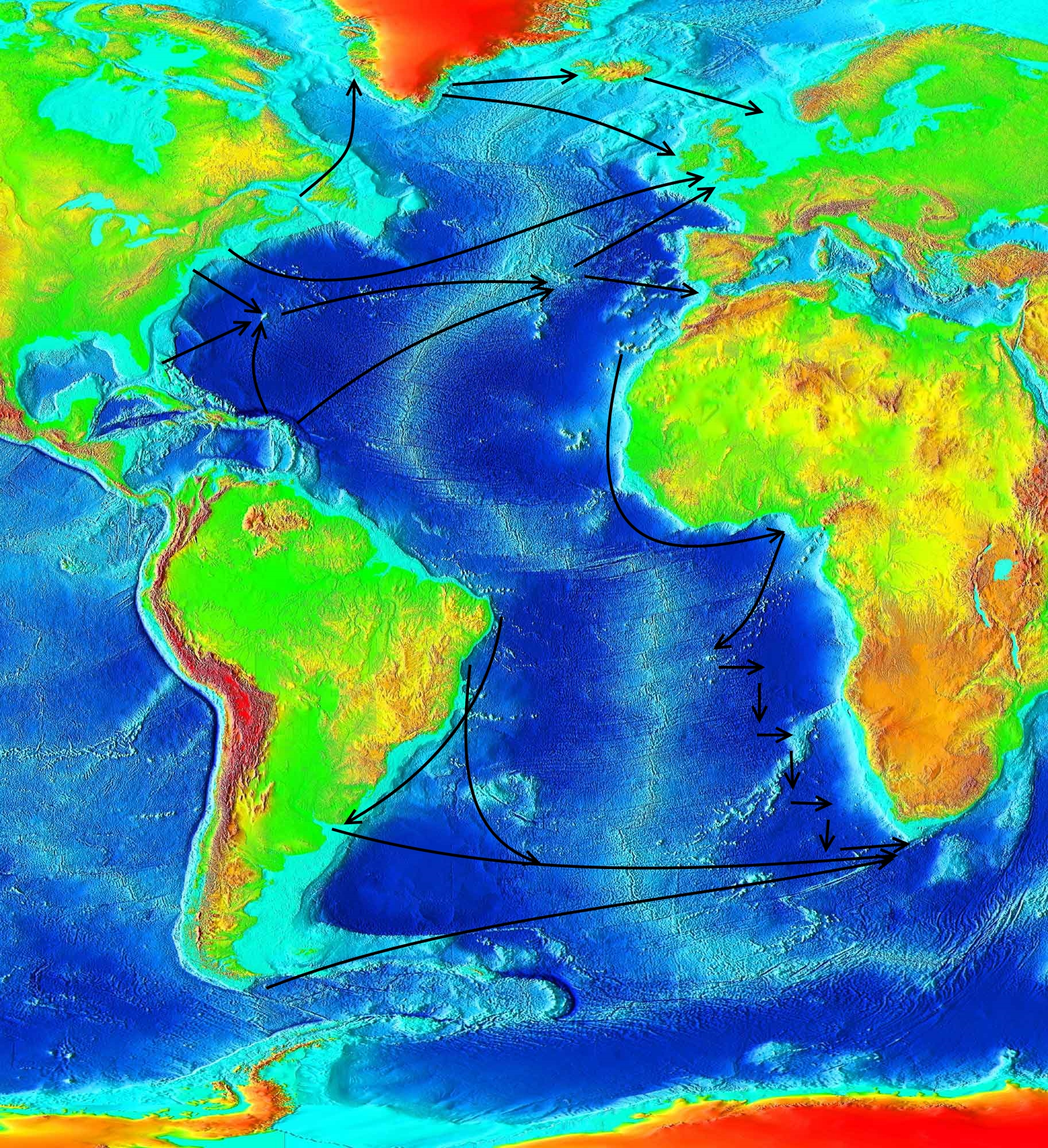 North and south Atlantic Ocean with the prefered sailing routes in eastward direction